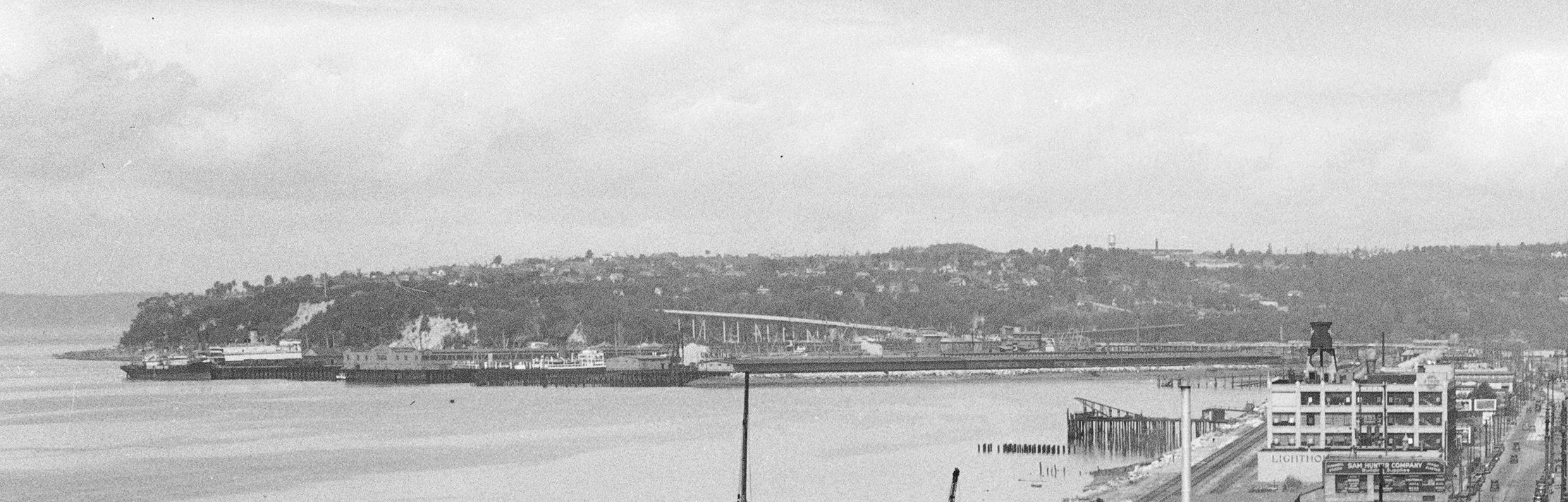 Piers at Smith Cove, Seattle, Washington, U.S., 1934. Magnolia in background. Taken from American Can Co. building at Elliott and Cedar.